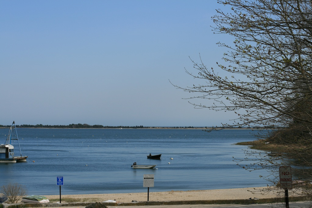 Picture of Cotuit Bay taken from Rope's Beach in April 2008. Bob Jensens barge used for winter sticks.